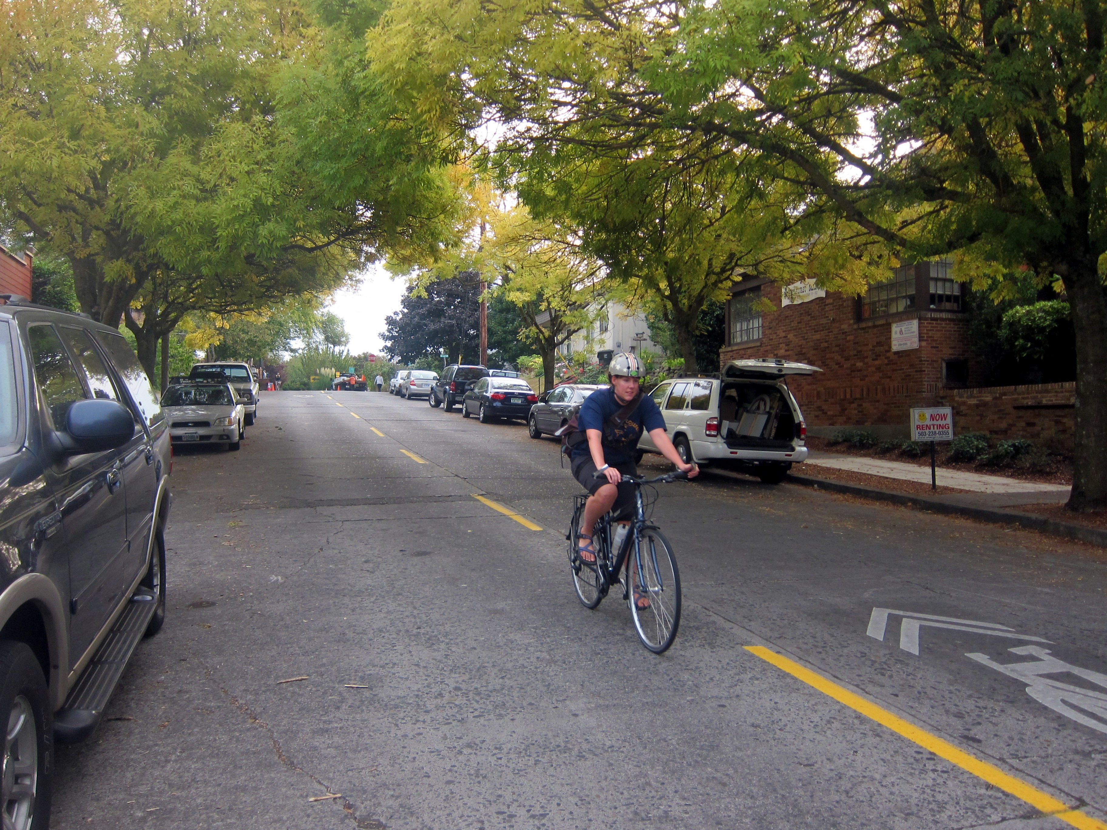 A neighborhood greenway on Southeast Ankeny Street in Portland, Oregon.